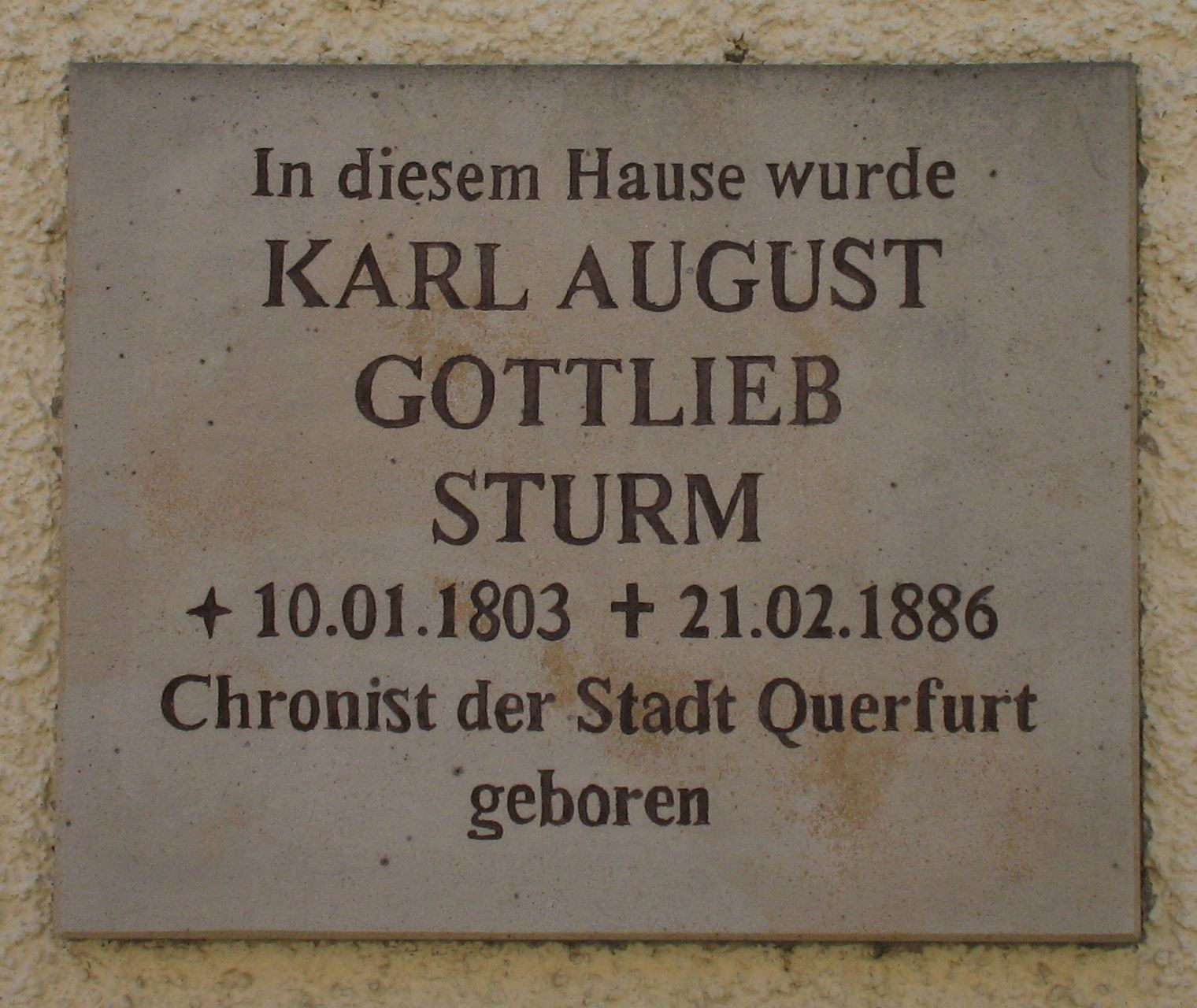 Memorial tablet for Karl August Gottlieb Sturm in Querfurt in Saxony-Anhalt, Germany